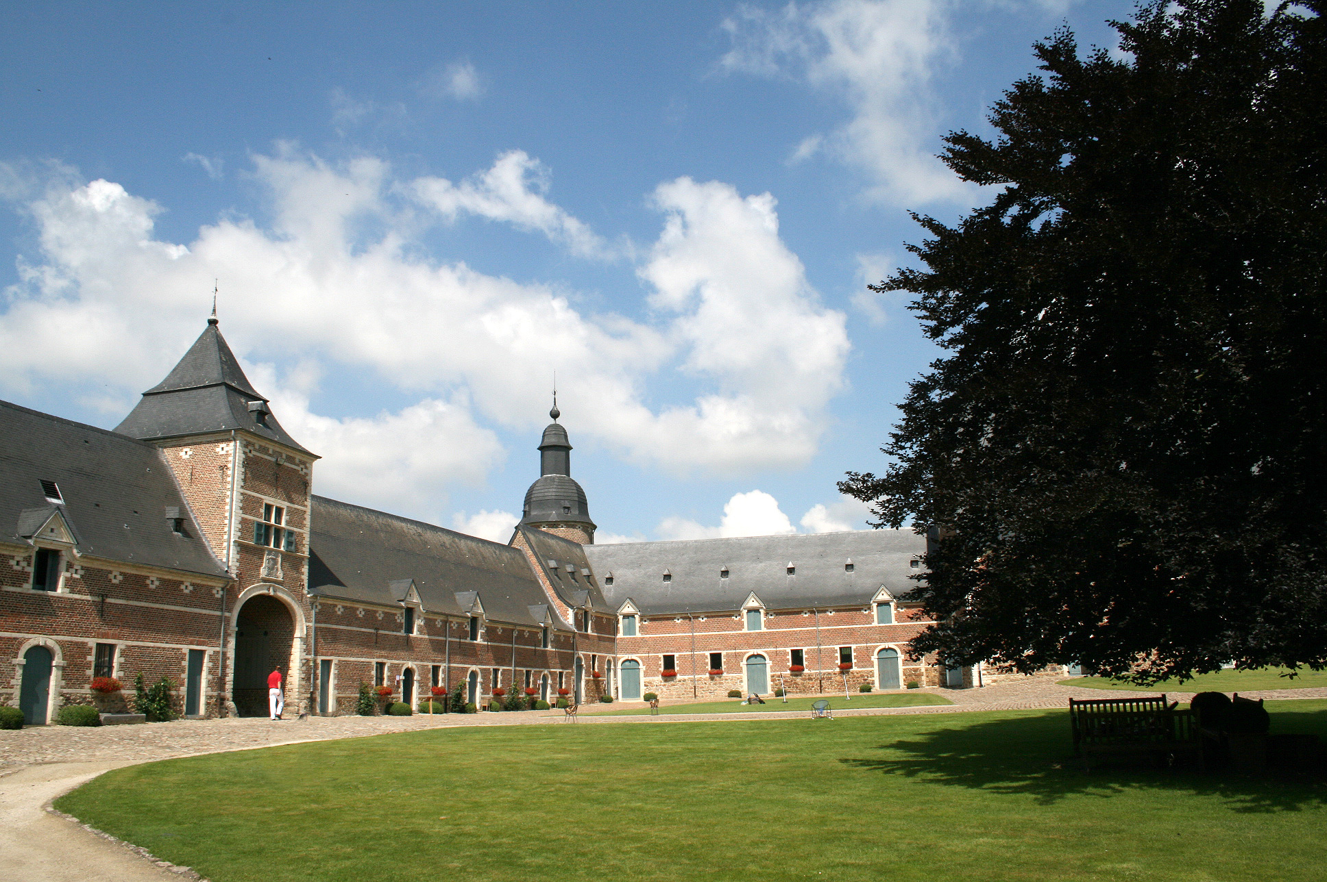 Jauchelette, Belgium, the tower-porch of the previous de la Ramée abbey. Walon: Djôç'lète, (Bèljike), li toûr-pwatche di l'abéye dol Ramée.